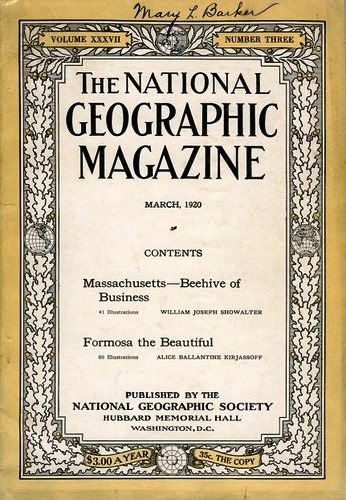 中文（台灣）: Alice Ballantine Kirjassoff 訪問台灣